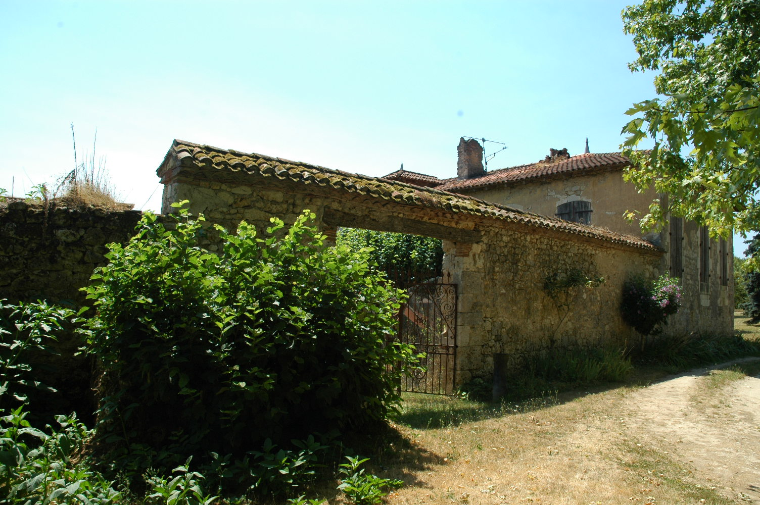 Manoir de Pech Lambert.